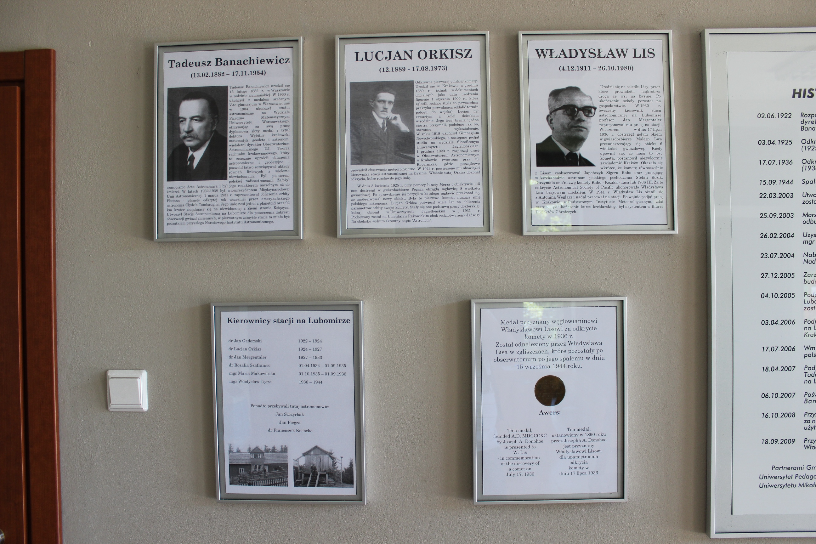 Lubomir Astronomical Observatory